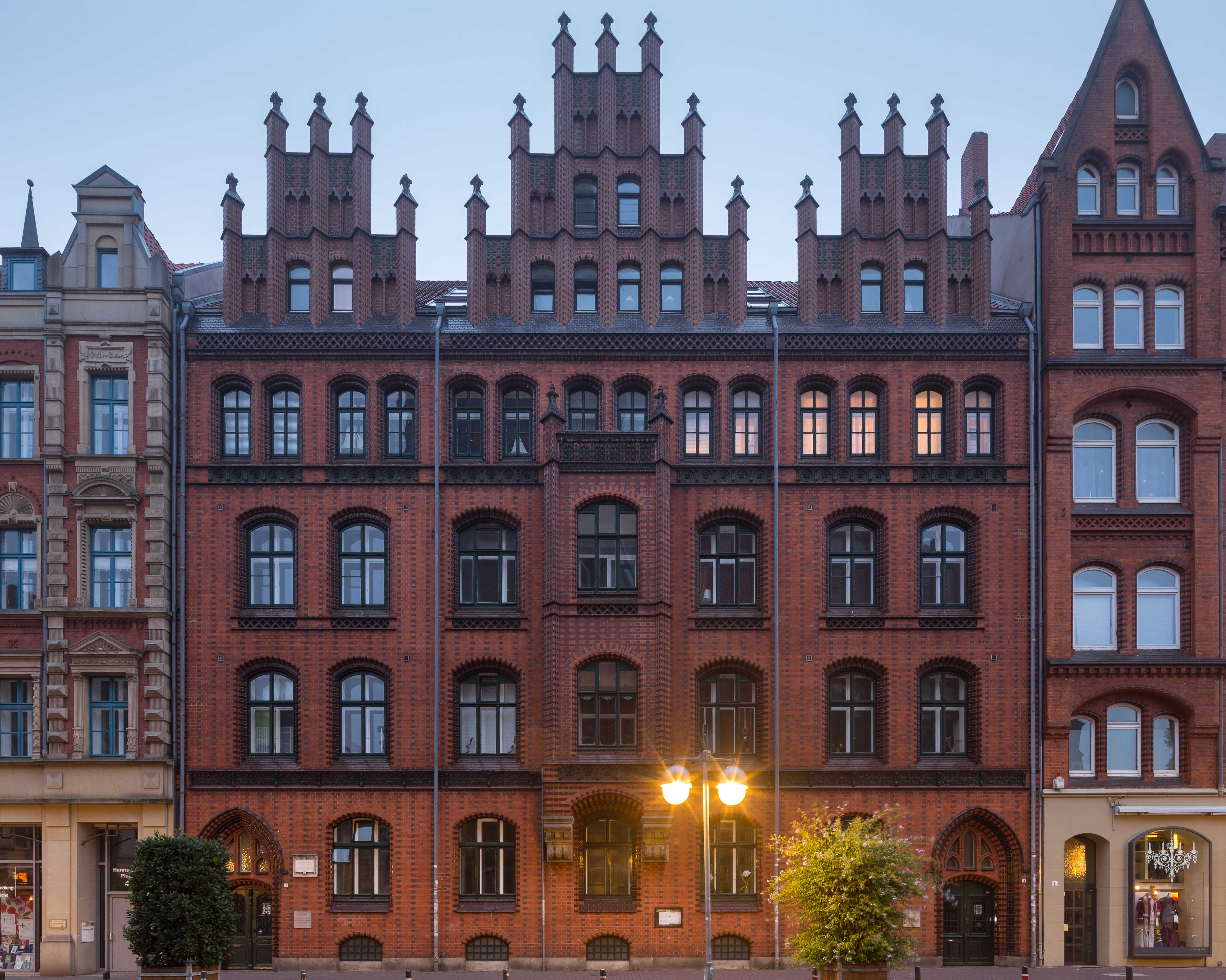 Parsonage house of Marktkirche Hannover church located at Hanns-Lilje-Platz square no. 2 in Mitte quarter of Hannover, Germany.